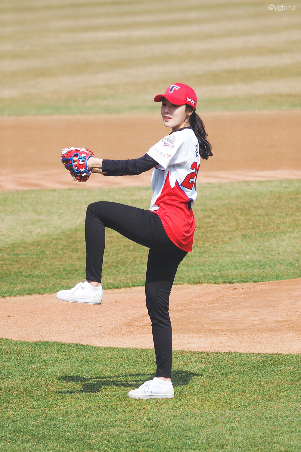 The two-time Olympic gold medalist, South Korea women's short track speed skating team member Kim A-lang threw out the Kia Tigers ceremonial first pitch in Gwangju, South Korea on March 25, 2018.